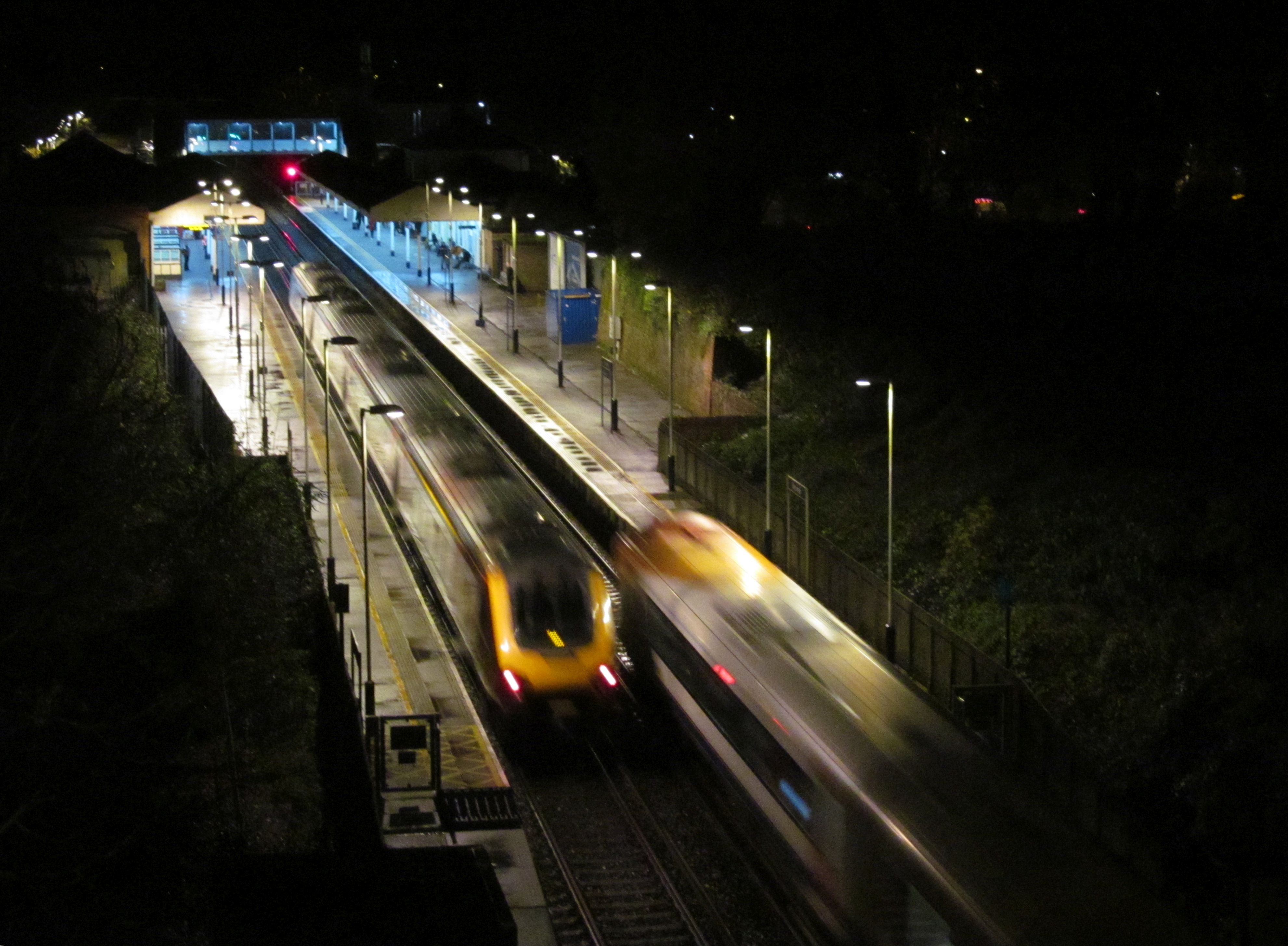 Winchester railway station at night: a CrossCountry service to York passing a South West Trains service to Weymouth